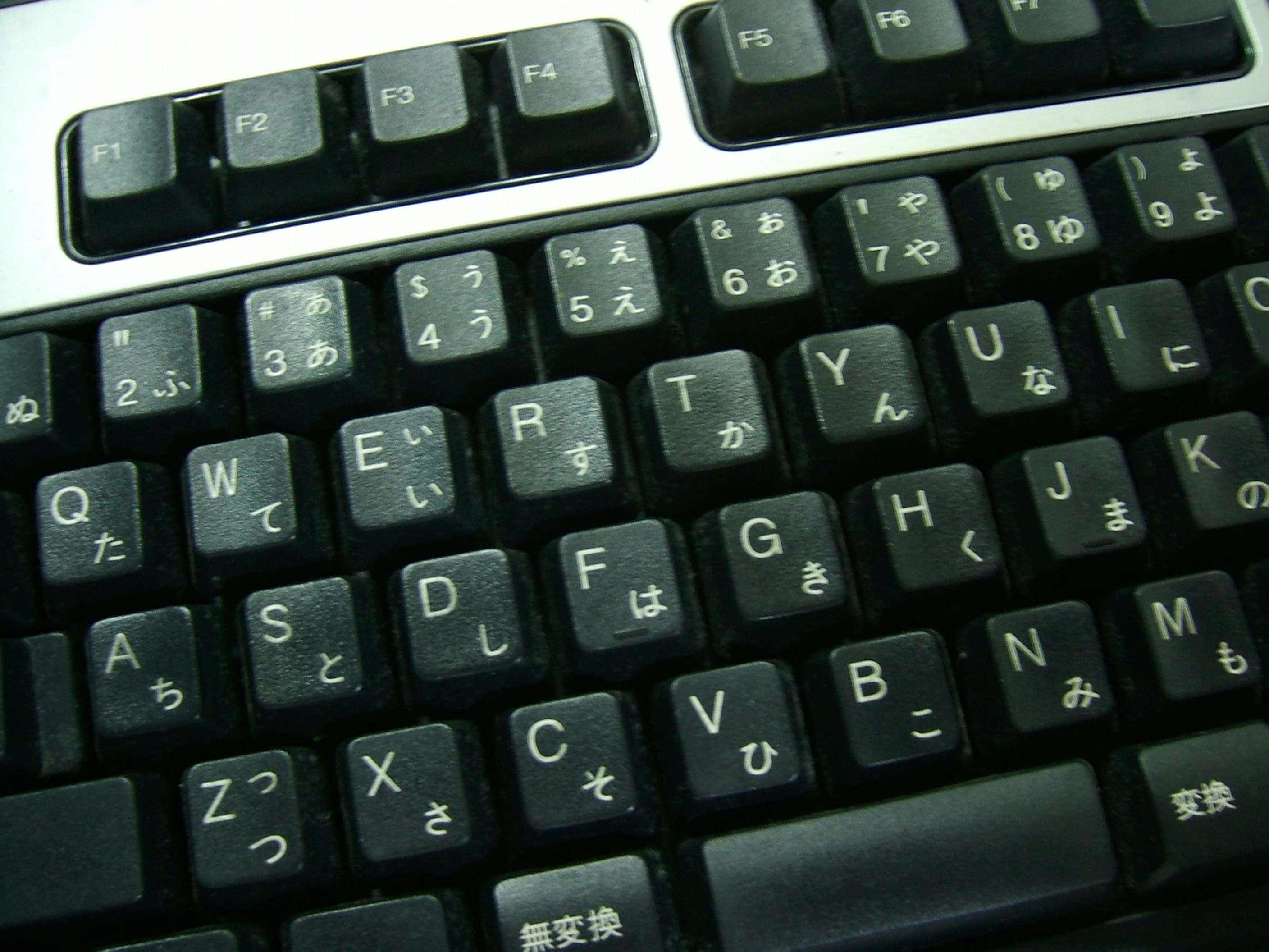 Keyboard for Japanese language